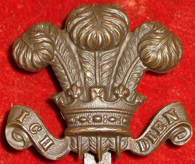 My own work, released into the public domain